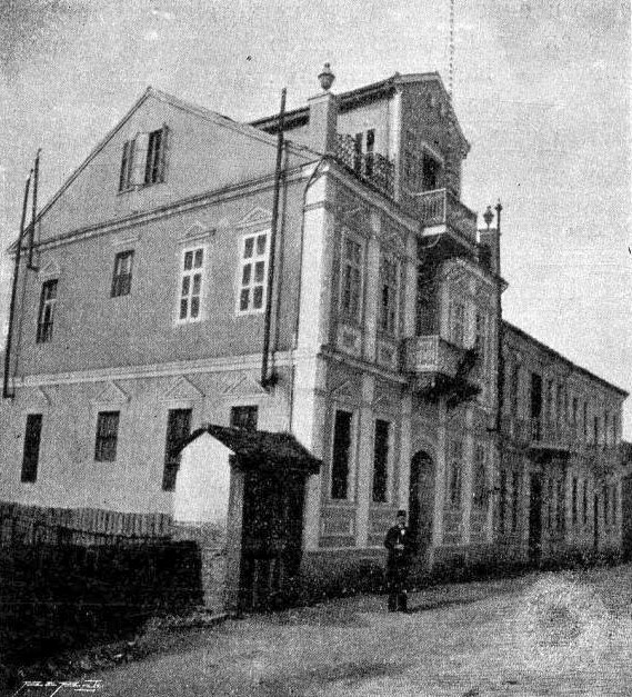 Nova iskra